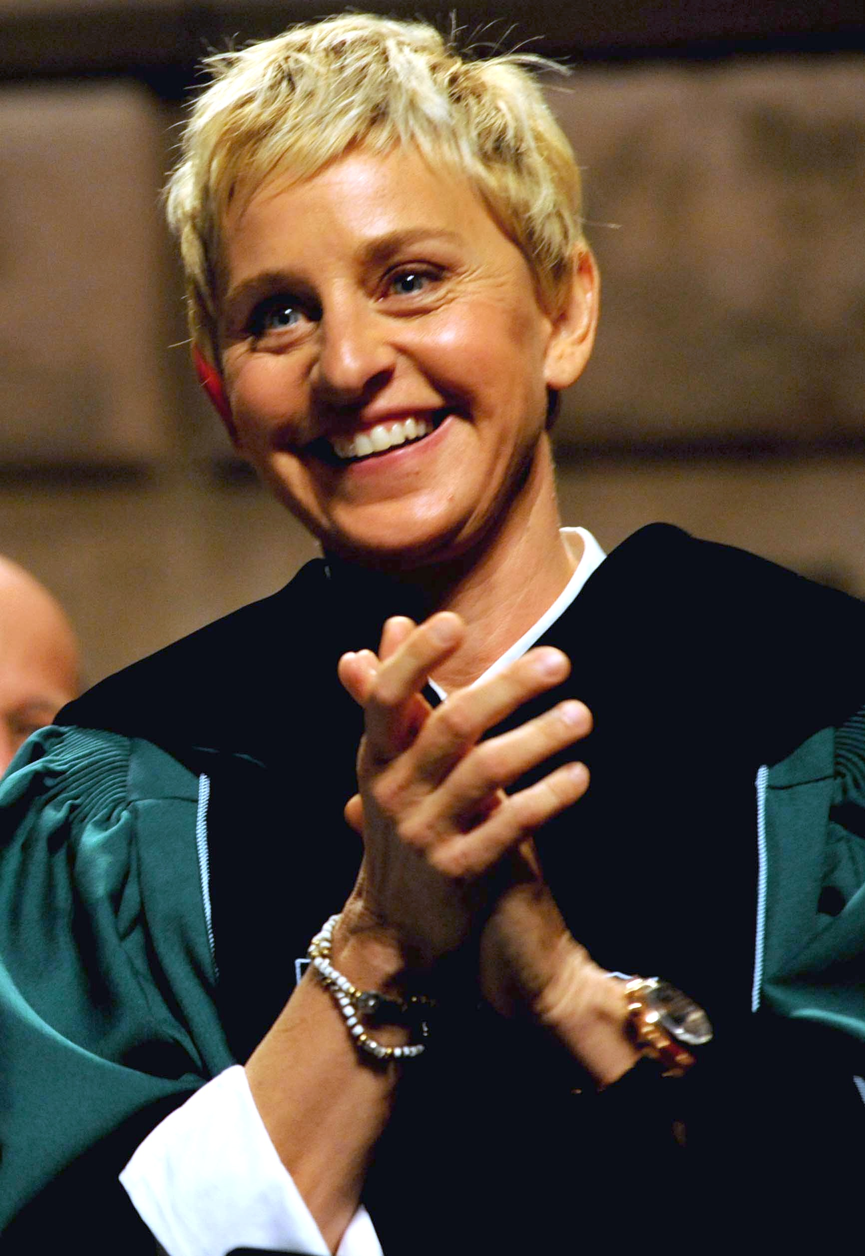 Ellen DeGeneres in 2009.